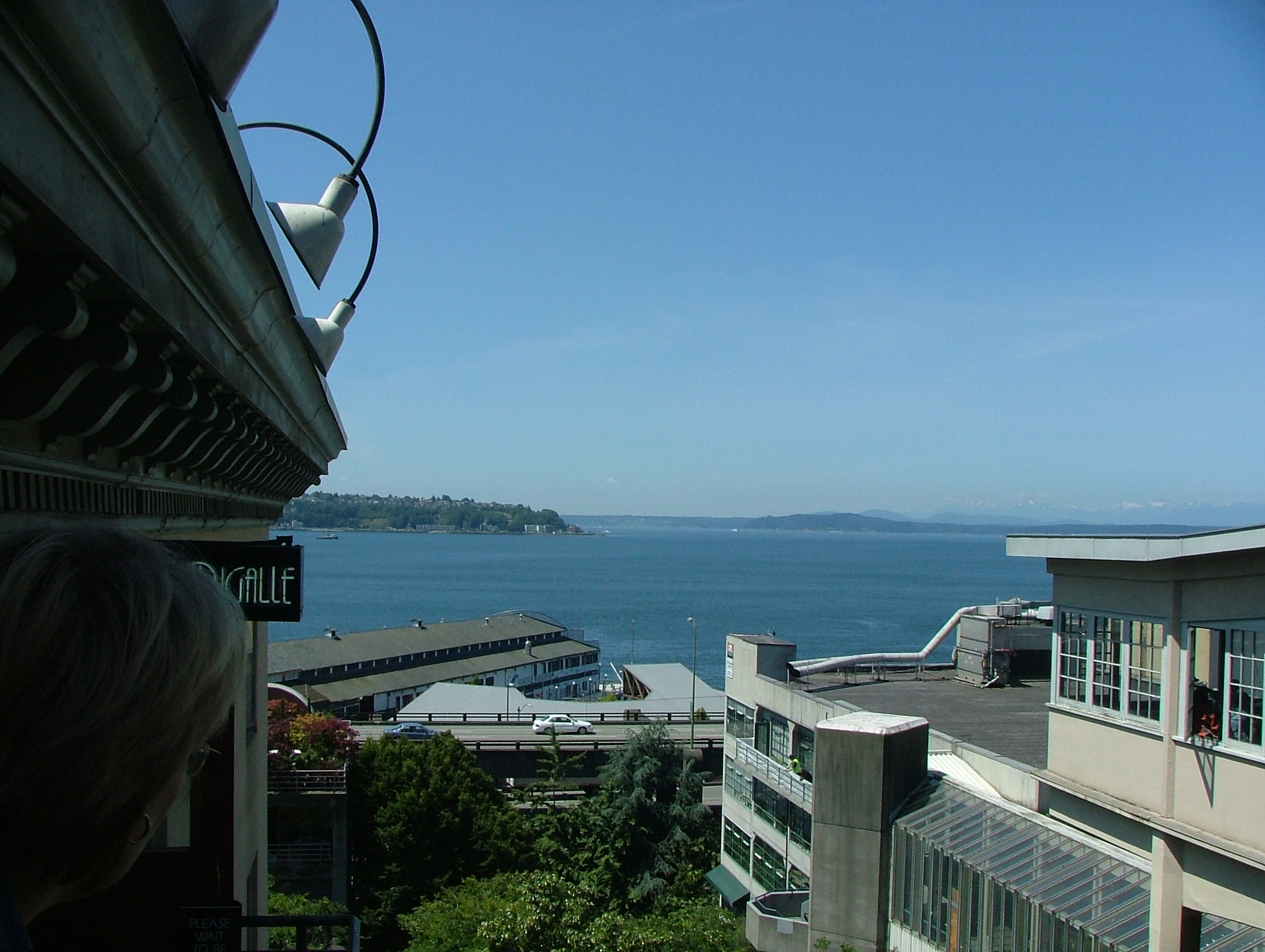 View of Elliott Bay from rear of Pike Place Market by Place Pigalle